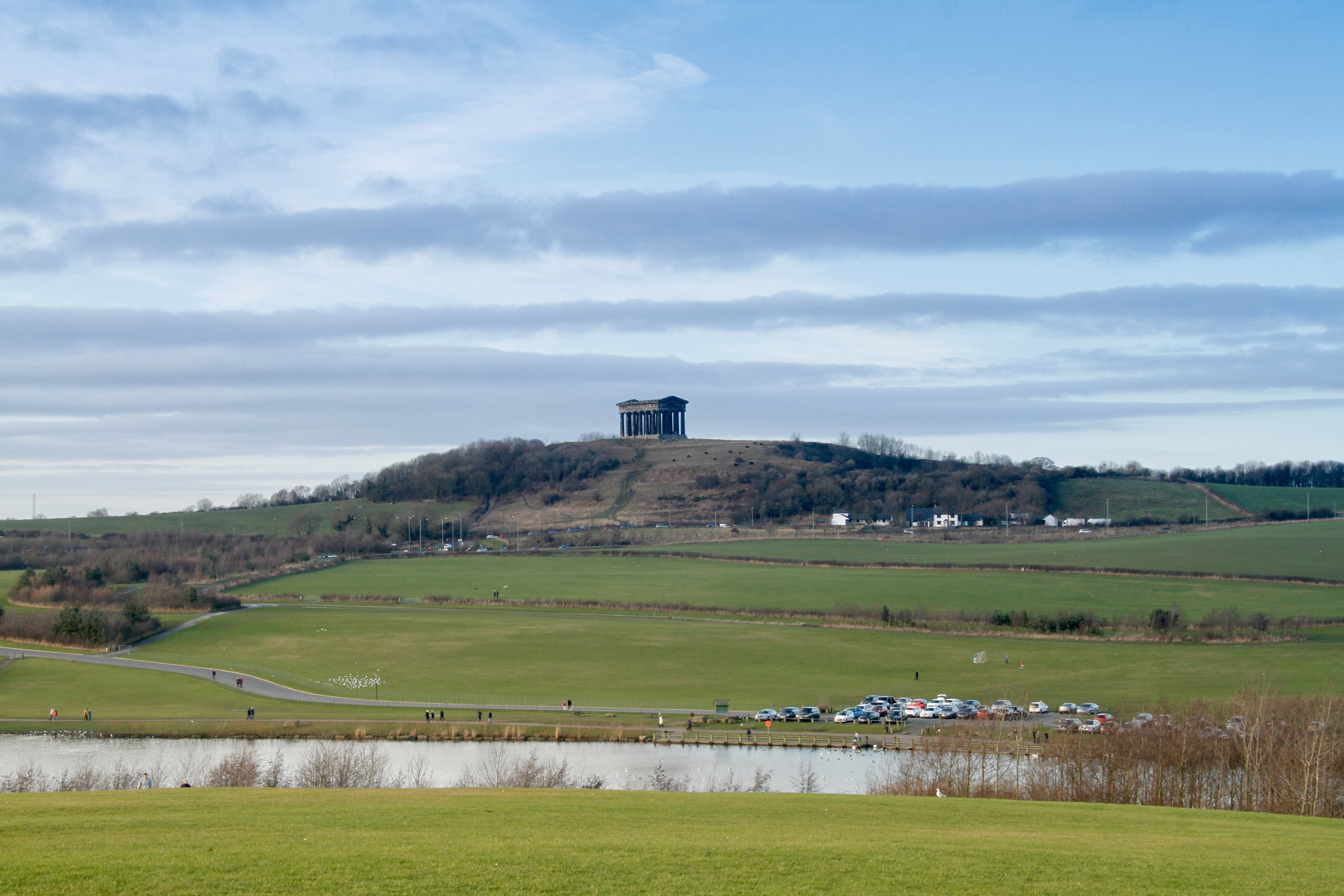 A view to Penshaw Monument from Herrington Country Park